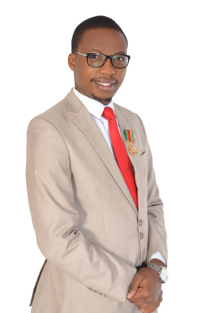 Timothy Mulenga in 2018